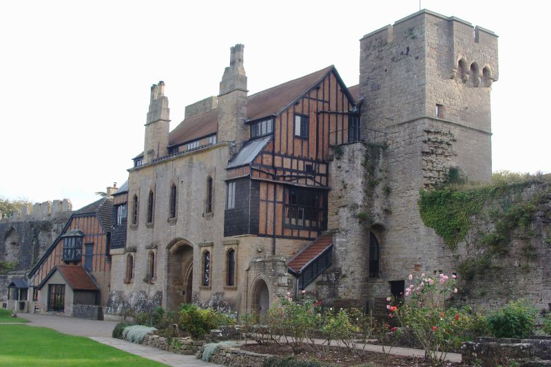 Caldicot Castle, Wales